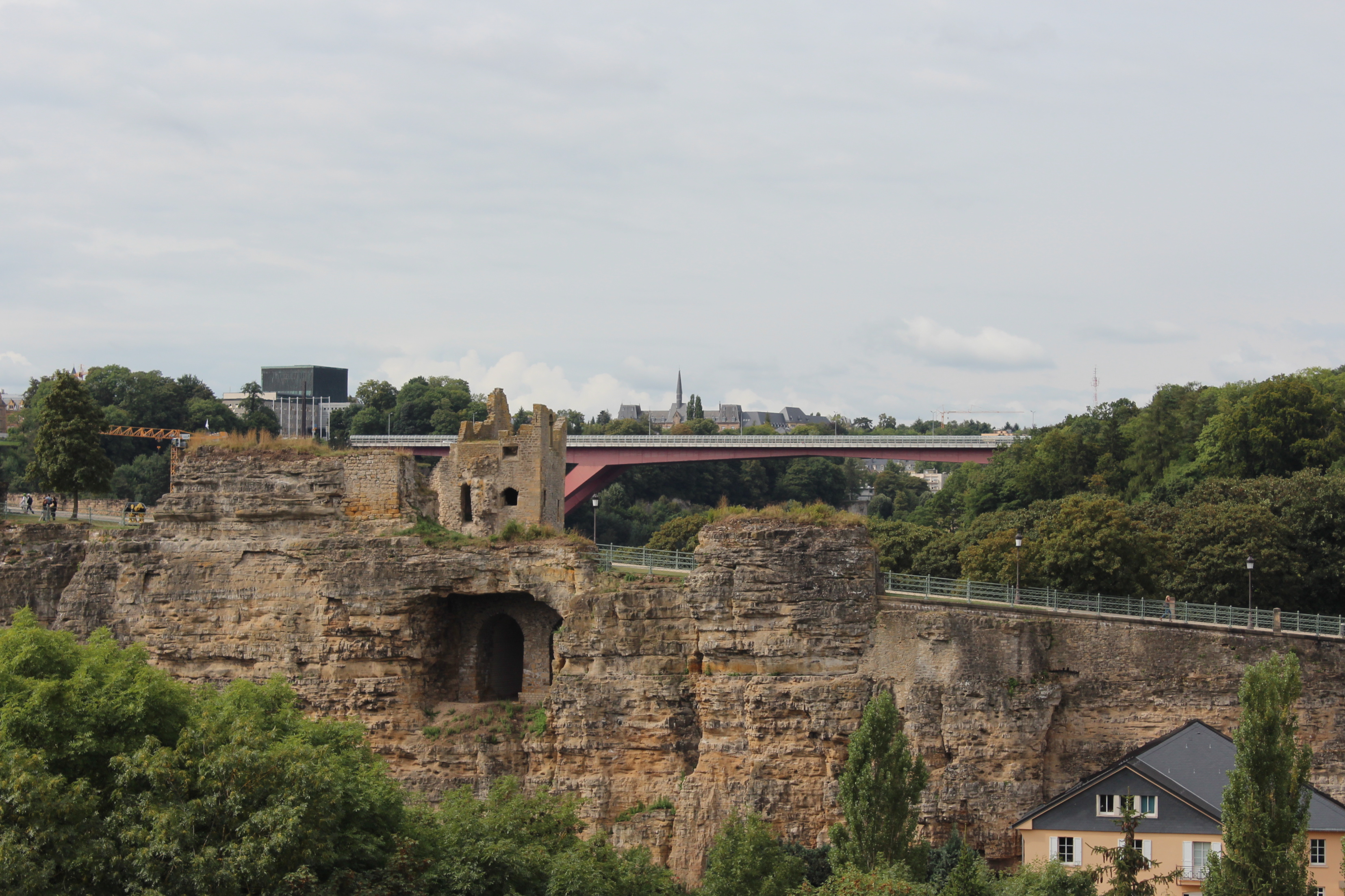 Rocher du Bock/Bockfiels and Pont Grande-Duchesse Charlotte in Luxembourg City